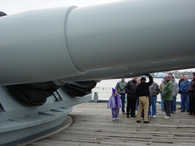 USS New Jersey (BB-62) showing the size of the 16-inch guns.